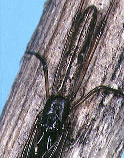 male Tetragnatha ceylonica from Okinawa.